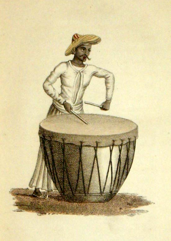 A Mahometan Beating the Nagabotte Frederic Shoberl from his work 'The World in Miniature: Hindoostan'. London: R. Ackerman, 1820's.""